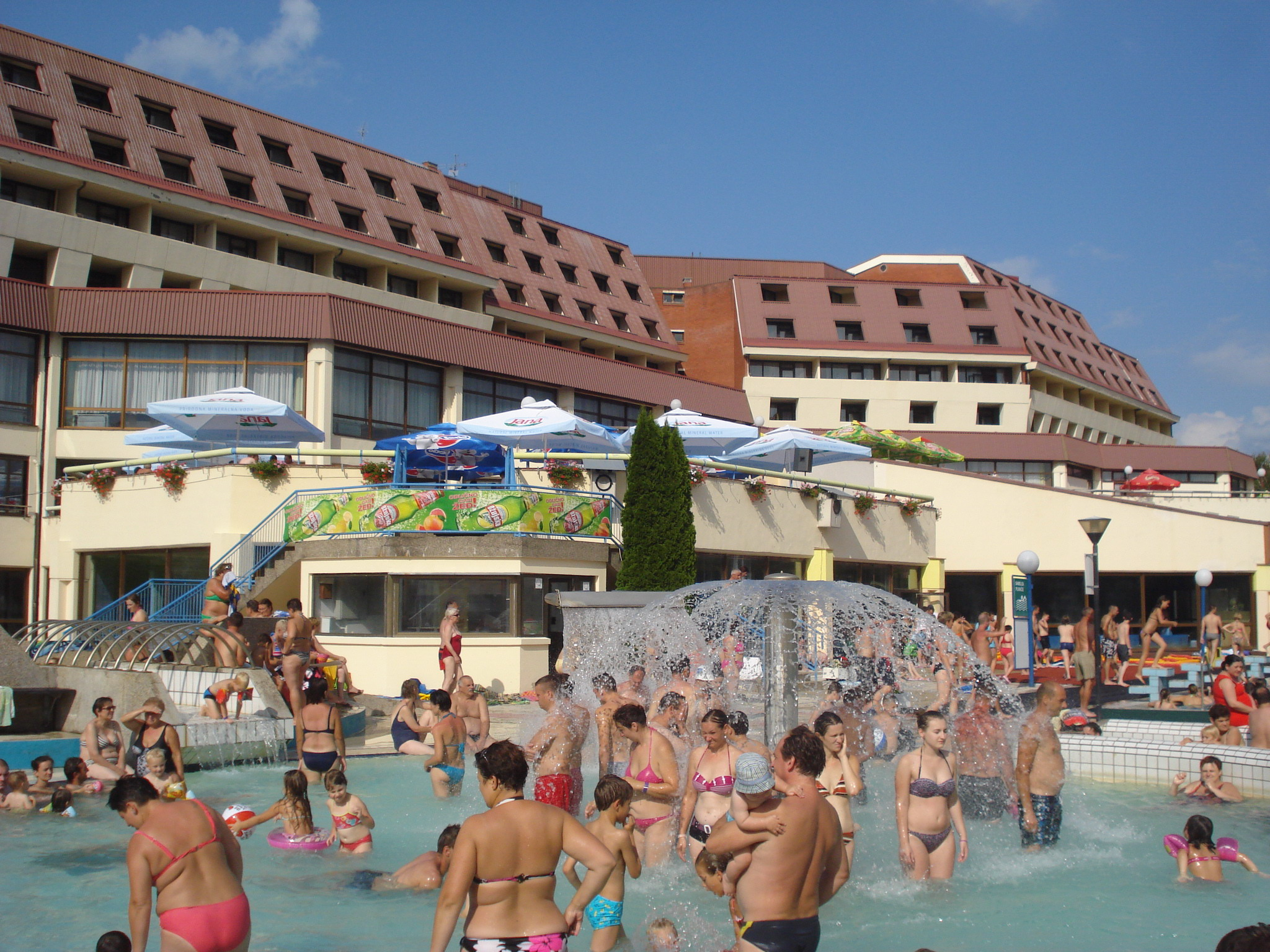 "Minerva" Hotel in Varaždinske Toplice, Croatia - swimming pools